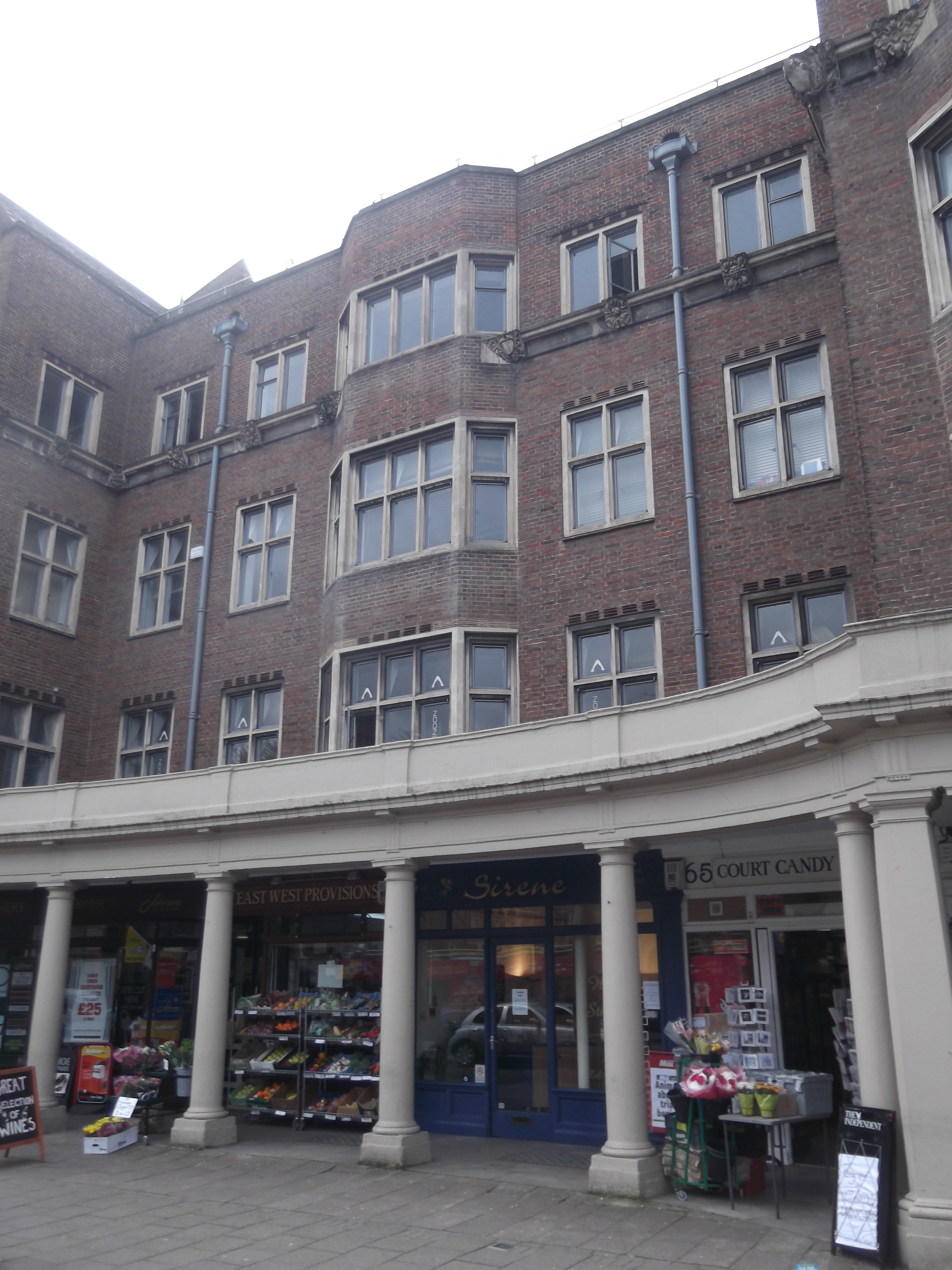 Part of the east front of Belsyre Court, Woodstock Road, Oxford, England